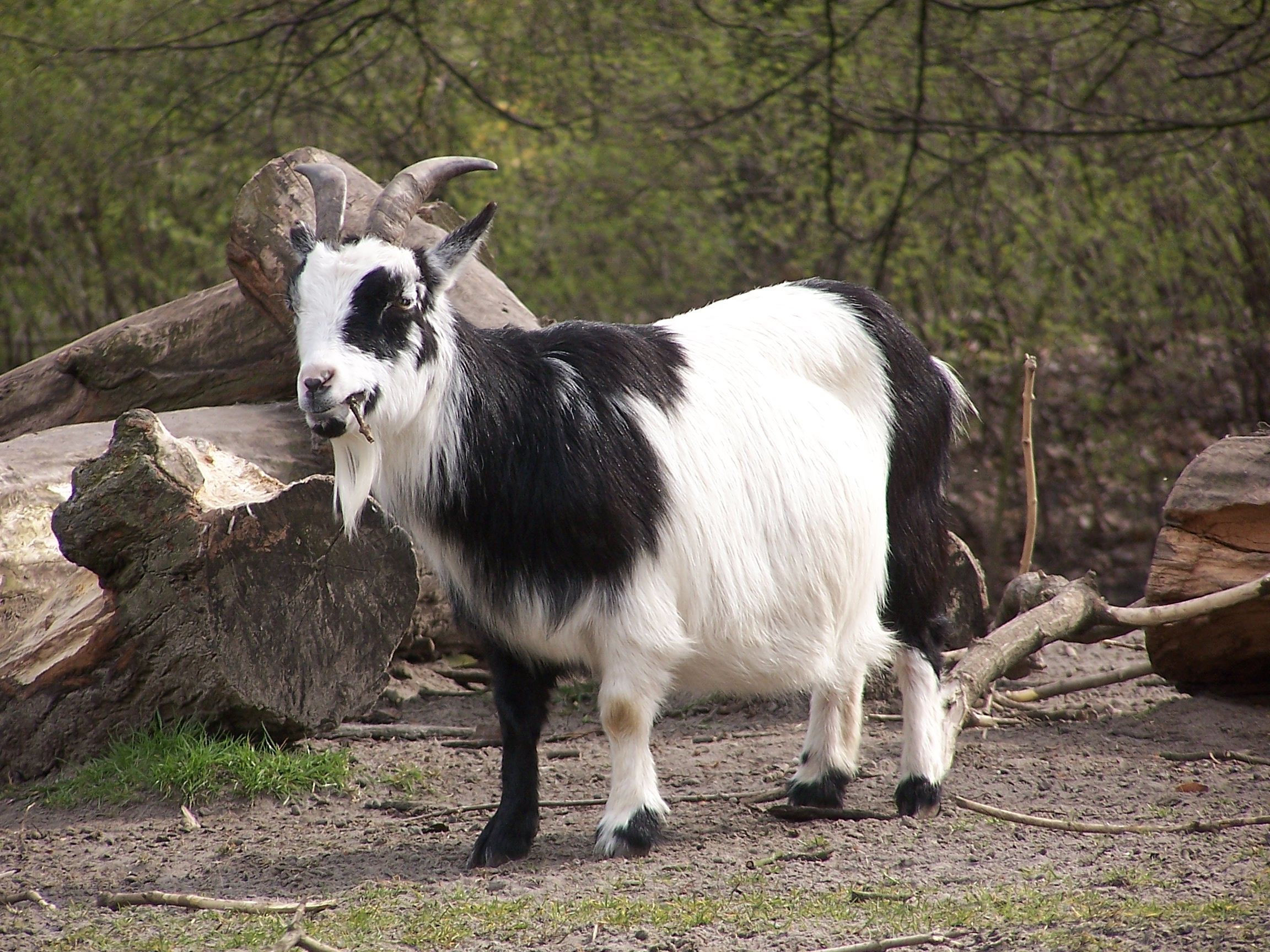 Capra aegagrus hircus (Pygmy goat) at Tierpark Berlin